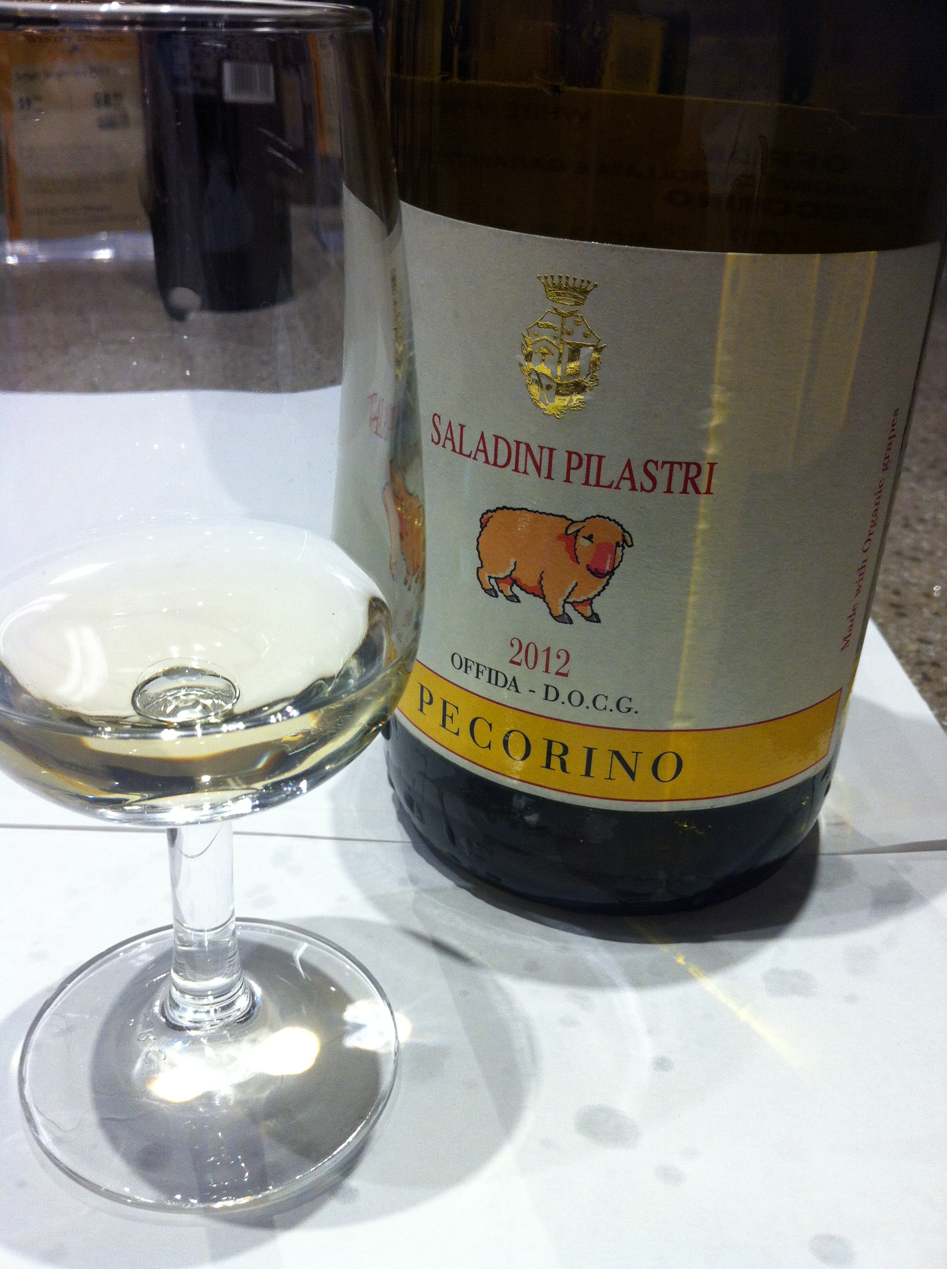 White Italian wine from the Marche wine region of Offida made from the Pecorino grape